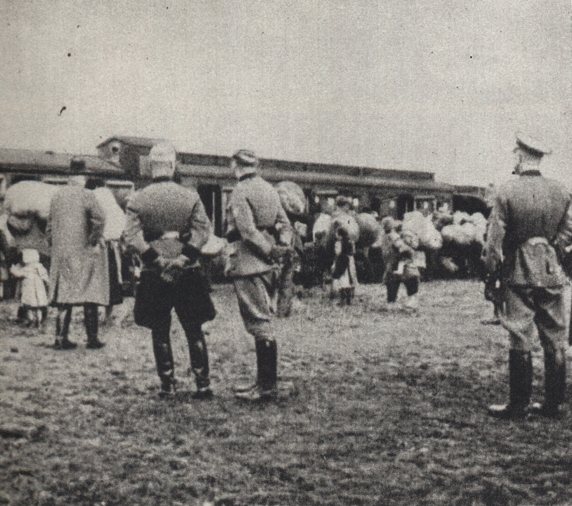 The mass expulsion of 18-20,000 Poles from the territory of Żywiec County (codename: “Aktion Saybusch”), conducted by the Nazi-German occupants in autumn 1940.